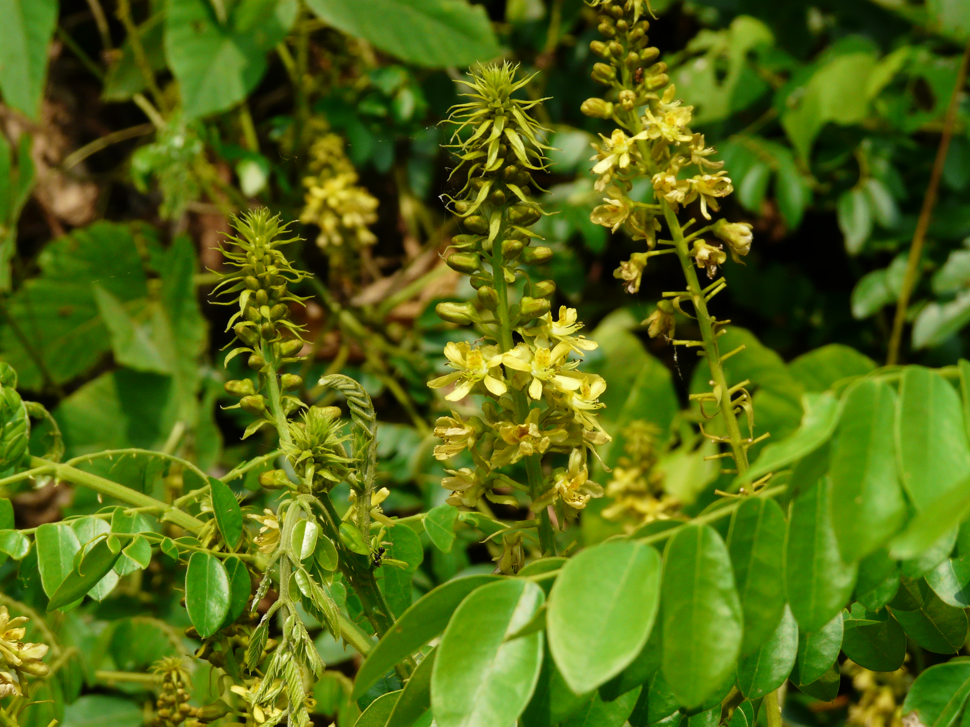 Fabaceae (pea, or legume family) » Caesalpinia bonduc ses-al-PIN-ee-uh -- named for Andreas Caesalpini, Italian botanist bonduc -- derived from Arabic word for hazelnut, referring to hazelnut like seeds commonly known as: bonduc nut, febrifuge nut, fever nut, molucca bean, nicker nut, sea pearl • Assamese: লেটাগুটি letaguti • Bengali: নাটাকরঞ্জ natakaranja •